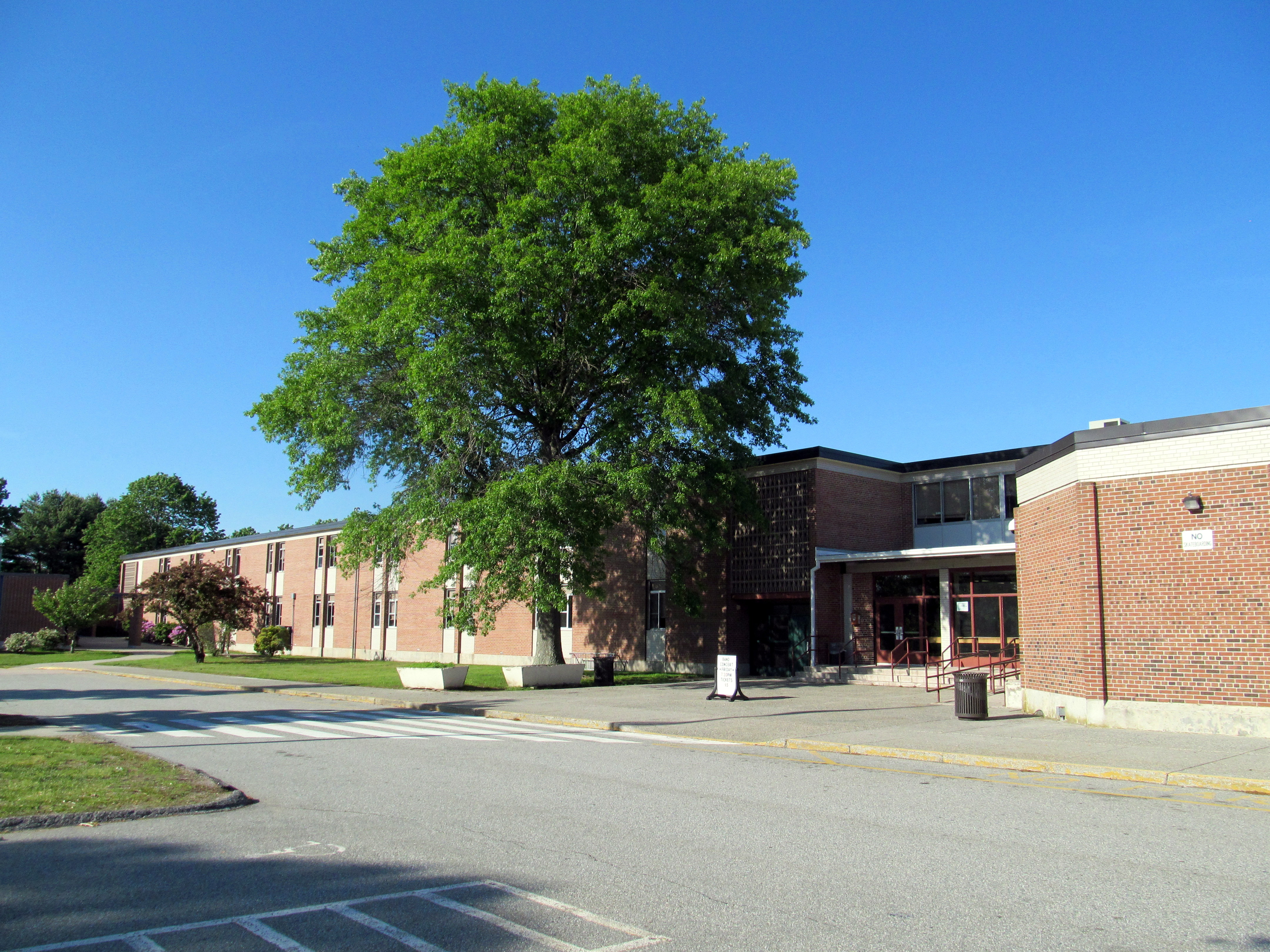 Ledyard High School, Ledyard, Connecticut